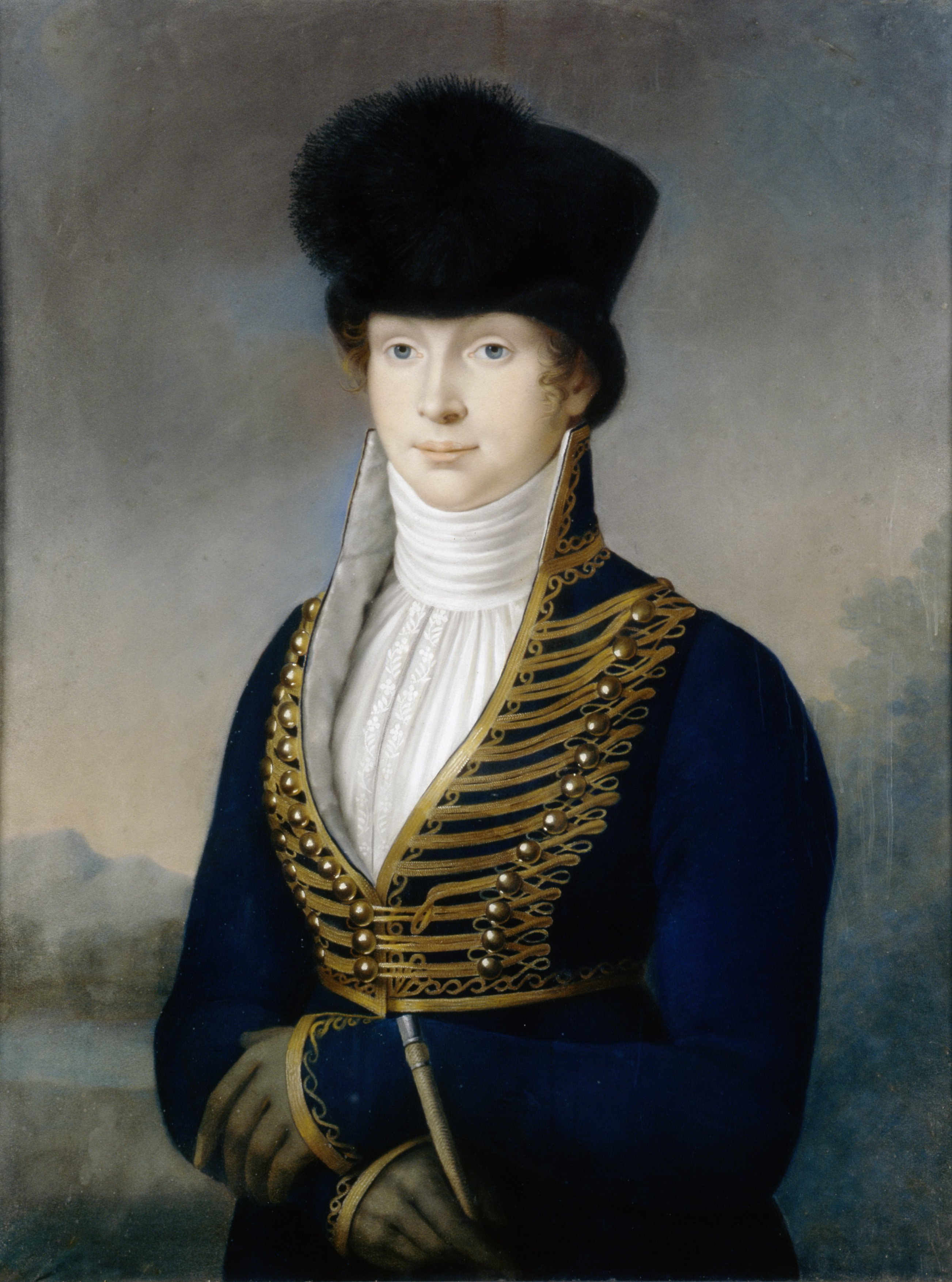 Queen Louise of Prussia in riding dress